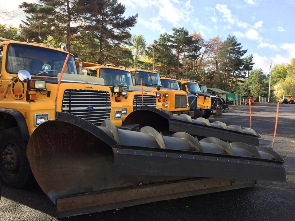 Not just for moving snow — we also use our plows to move large debris on the highway.